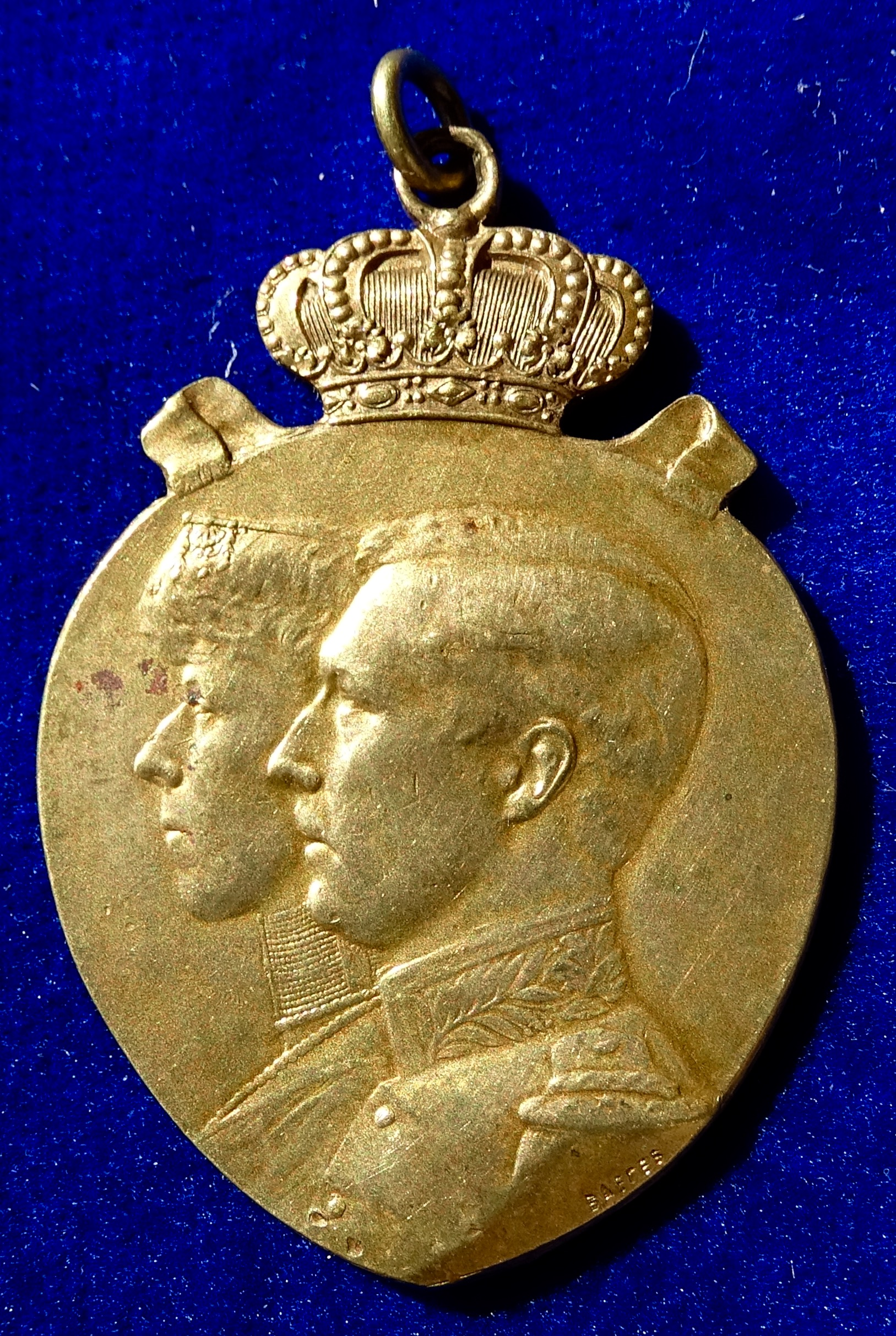 Medallion 32 x 46 mm. Albert I, 1909-1934 and Elisabeth of Bavaria, 1876 Possenhofen Castle, Bavaria - 1965 Brussels, Belgium / Captain E. Verhoestraete, Lieutenant Balat, and Sous-lieutenant Vanuxem Crowned medal with the portraits of the Royal Belgian Couple l./ 6 lines: "OCCUPATION DE LA RUHR 1923 - 1924 GÉNIE 2. C. A. 1er Bon 2e Cie Capne VERHOESTRAETE. E Lieutt. BALAT s/Lieutt. VANUXEM". Artist: Jules Baetes, 1861 Antwerpen - 1937 Antwerpen Condition: EXTREMELY FINE